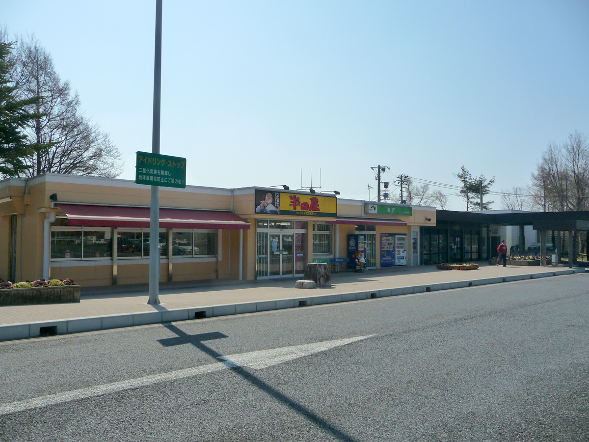 Tohoku Expressway Takizawa PA